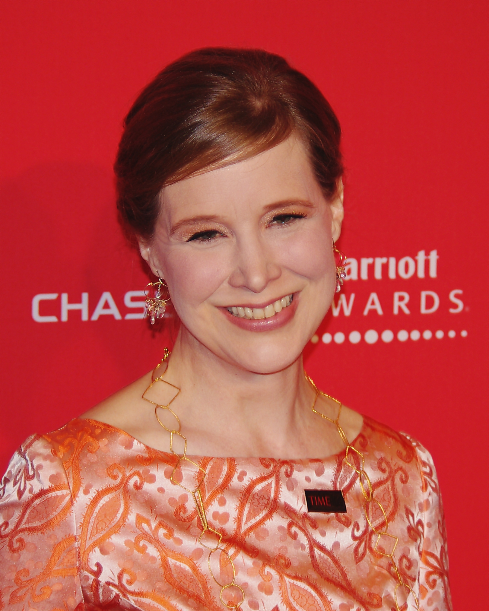 Ann Patchett at the 2012 Time 100 gala.